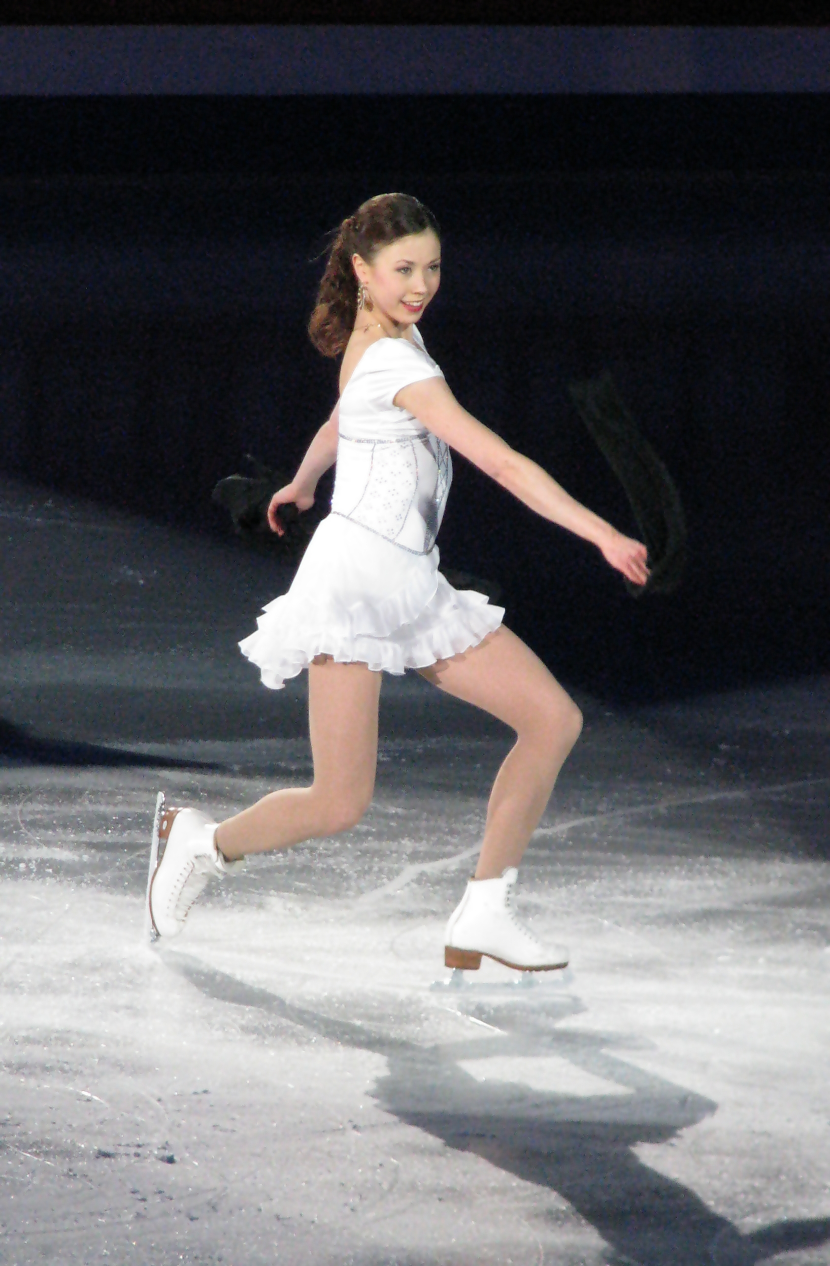 Laura Lepistö in 2010 European Figure Skating Championships (Gala)